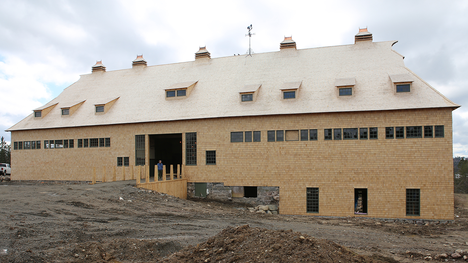 This photo shows the barn newly shingled with interior work ongoing.